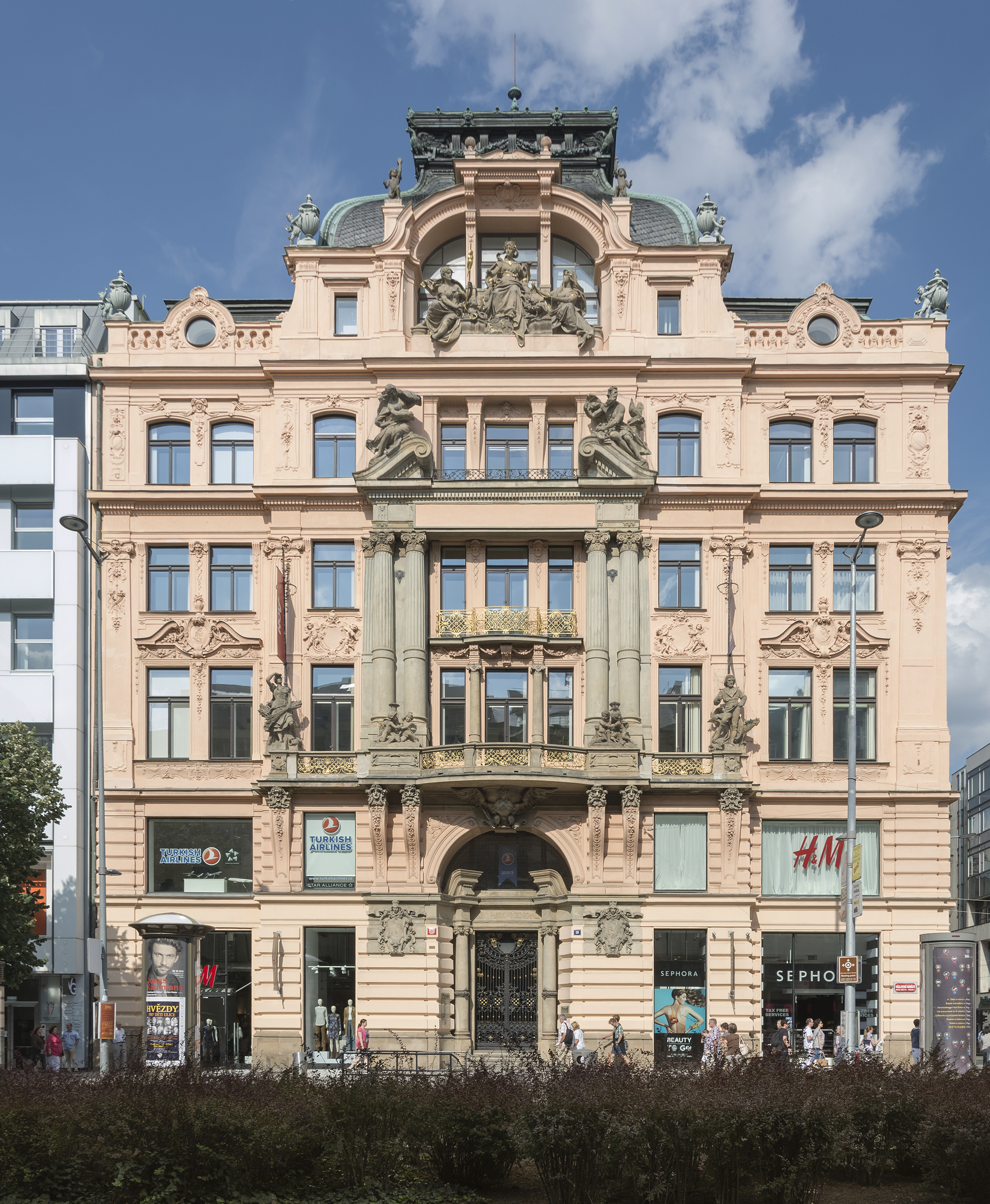 Generali Palace in Prague